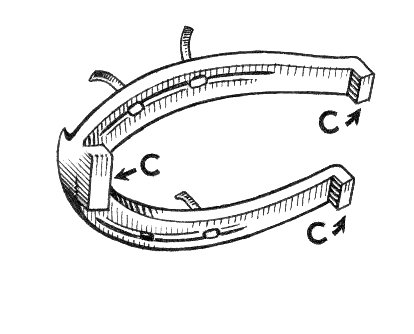 line art drawing of calk.